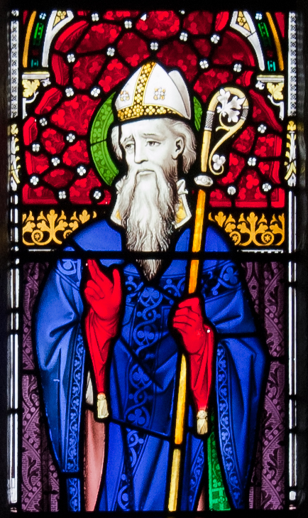 Detail of a stained glass window depicting St. Iberius, one of the early saints in County Wexford.